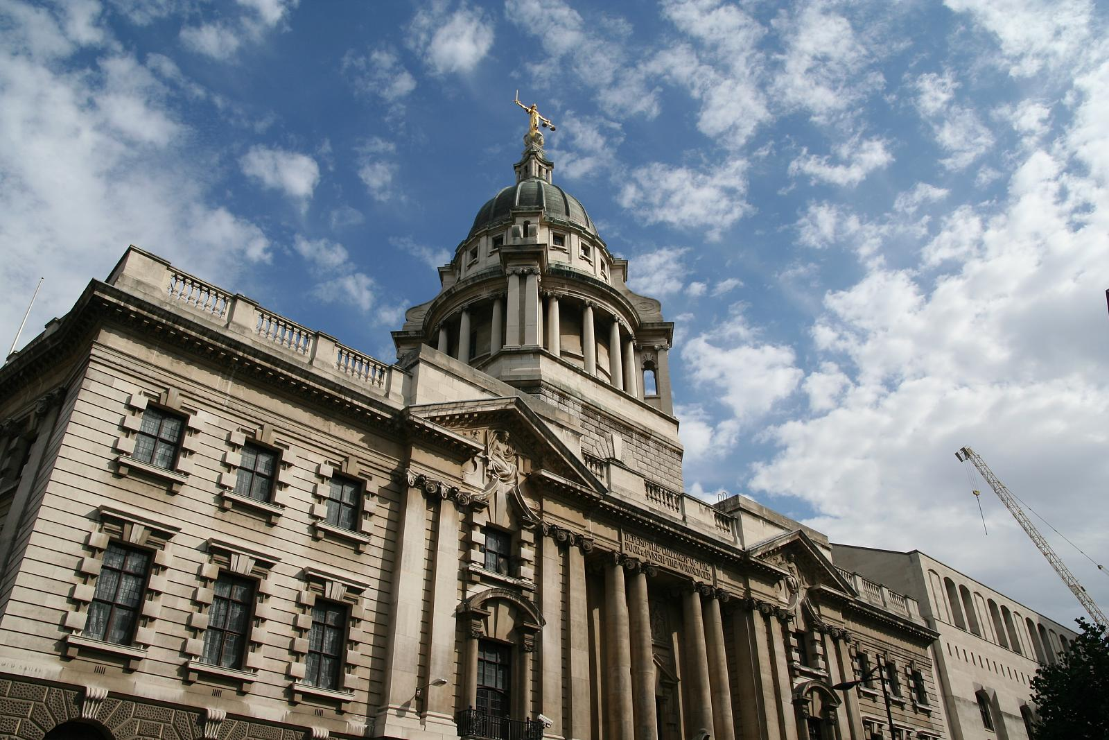 UK - London